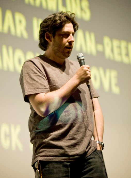 Jason Reitman @ 2007 Toronto International Film Festival